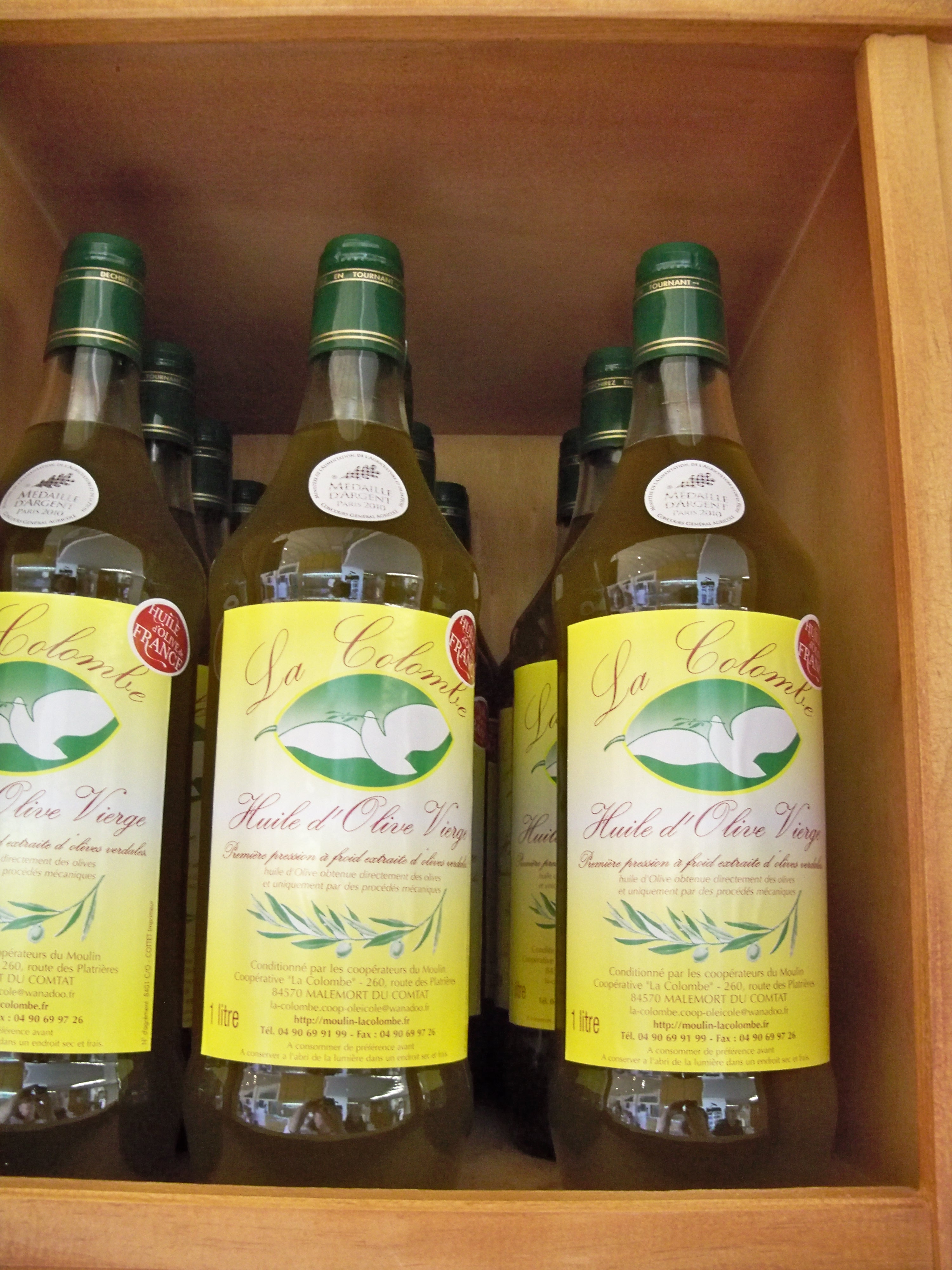 Olive oil from Vaucluse